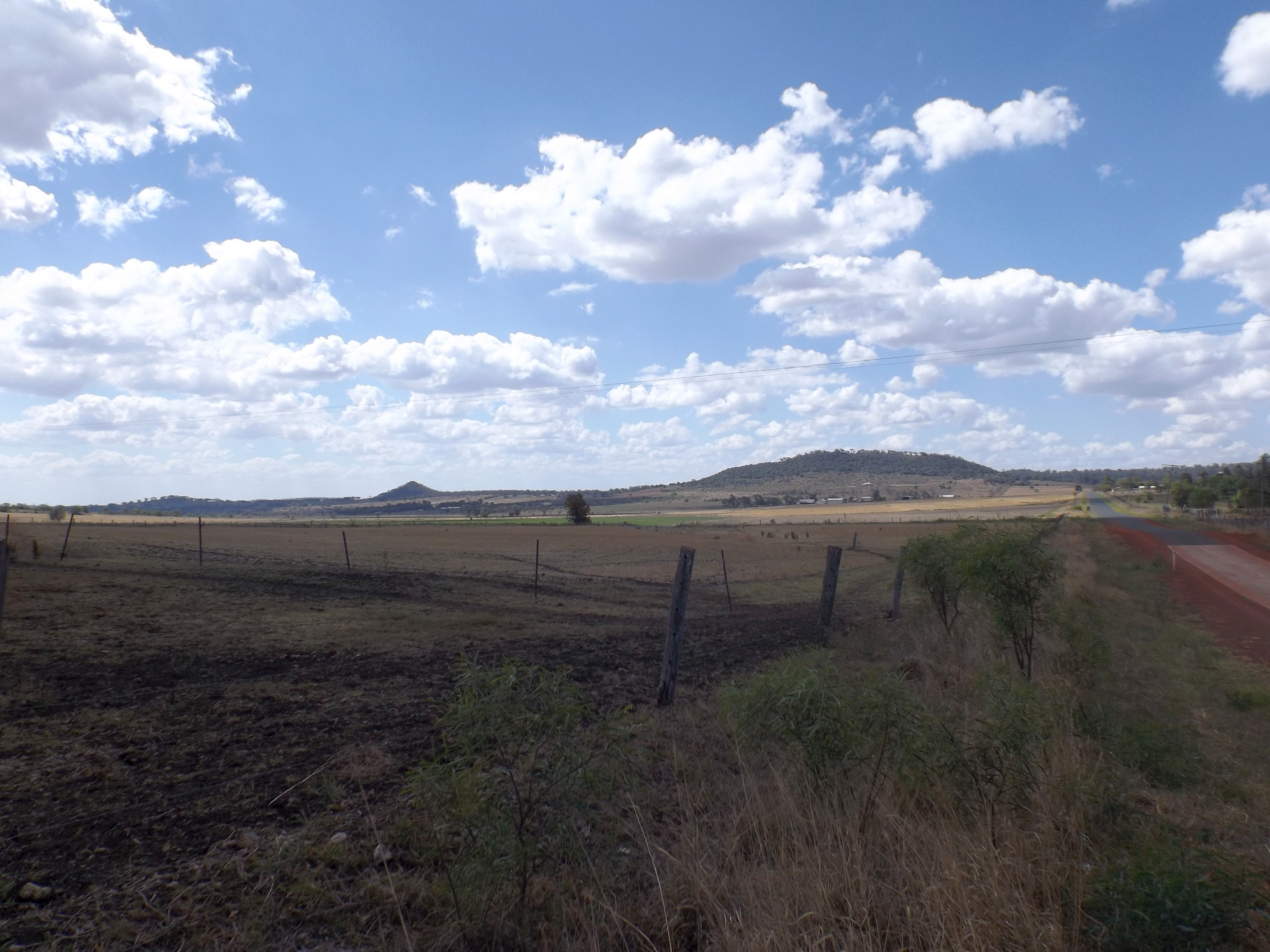 Photo of fields at Lilyvale, Toowoomba Region, Queensland, Australia.